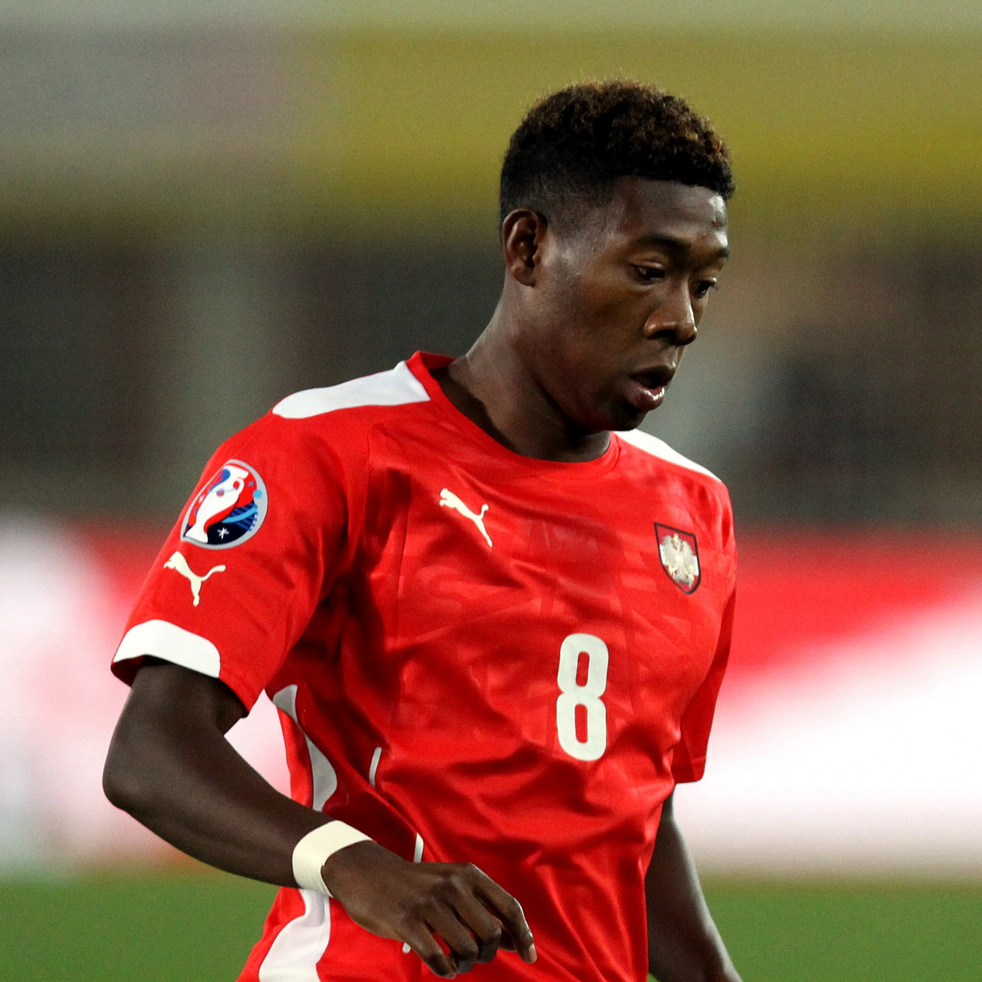 UEFA Euro 2016 qualifying, Group G – Austria national football team (red shirts) vs. Moldova national football team (blue shirts) on 2015-09-05 in Ernst-Happel-Stadion, Vienna: The photo shows David Alaba